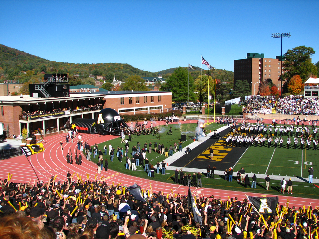 Appalachian State football team exiting the field house for a football game